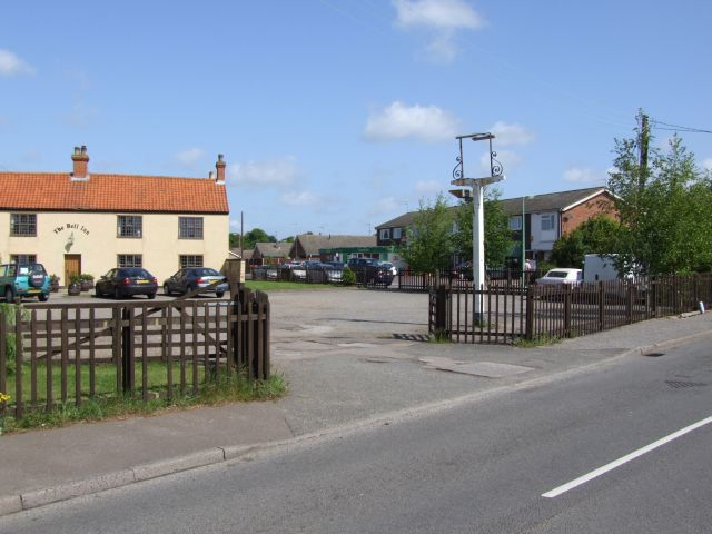 The Bell Inn, Carlton Colville, near to Carlton Colville, Suffolk, Great Britain.